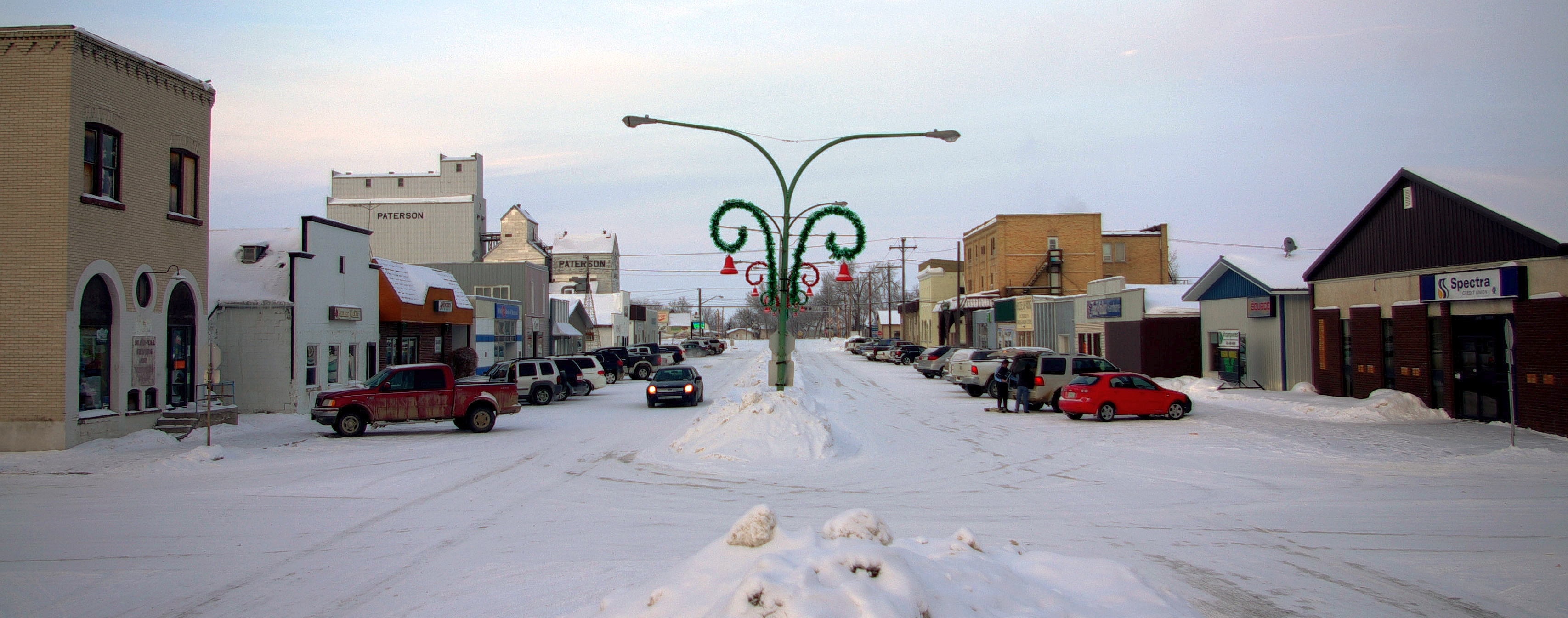 Northward view of Broadway Street at its intersection with Pacific Avenue. January 2011.